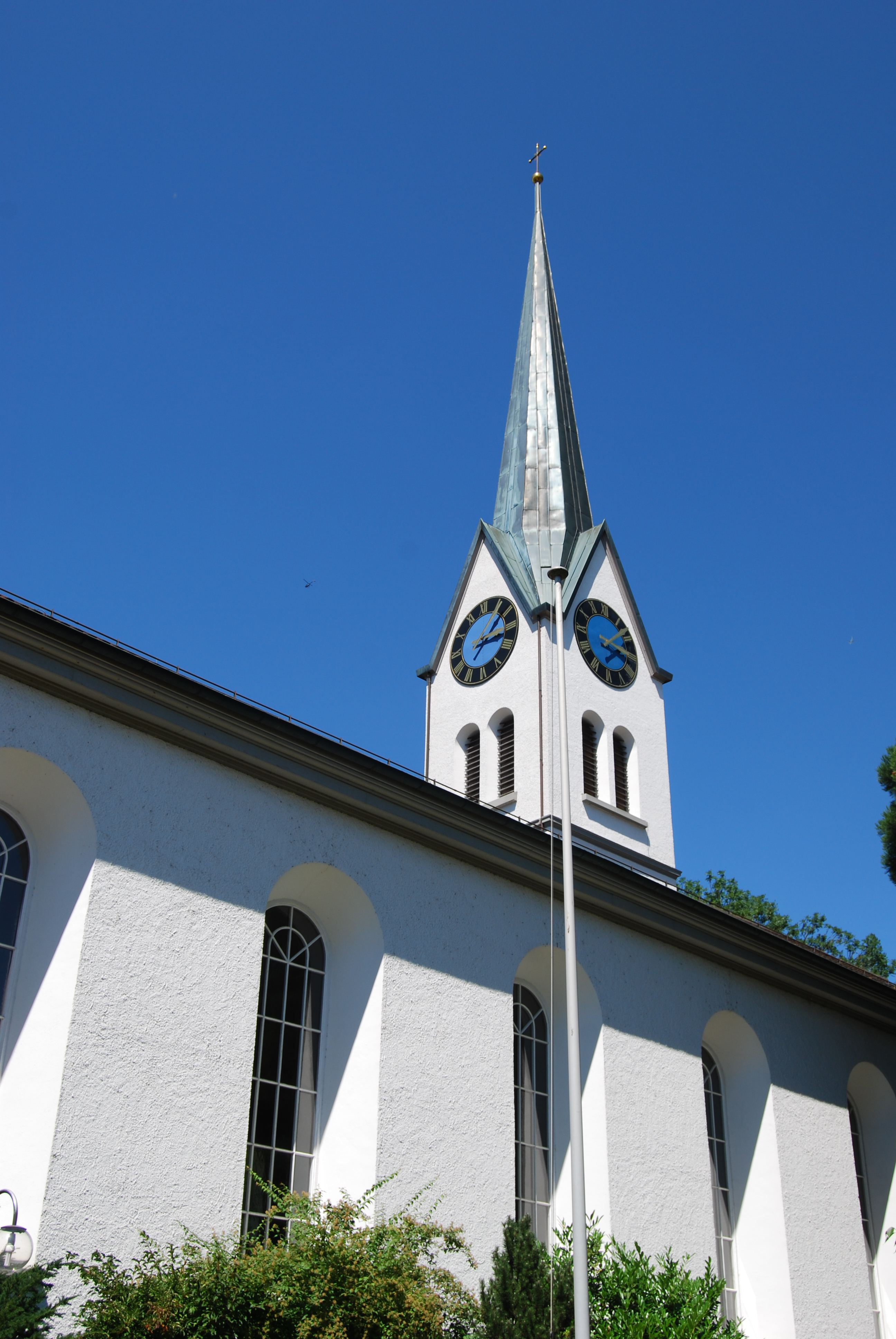 Catholic church of Rickenbach, canton of Thurgovia, Switzerland